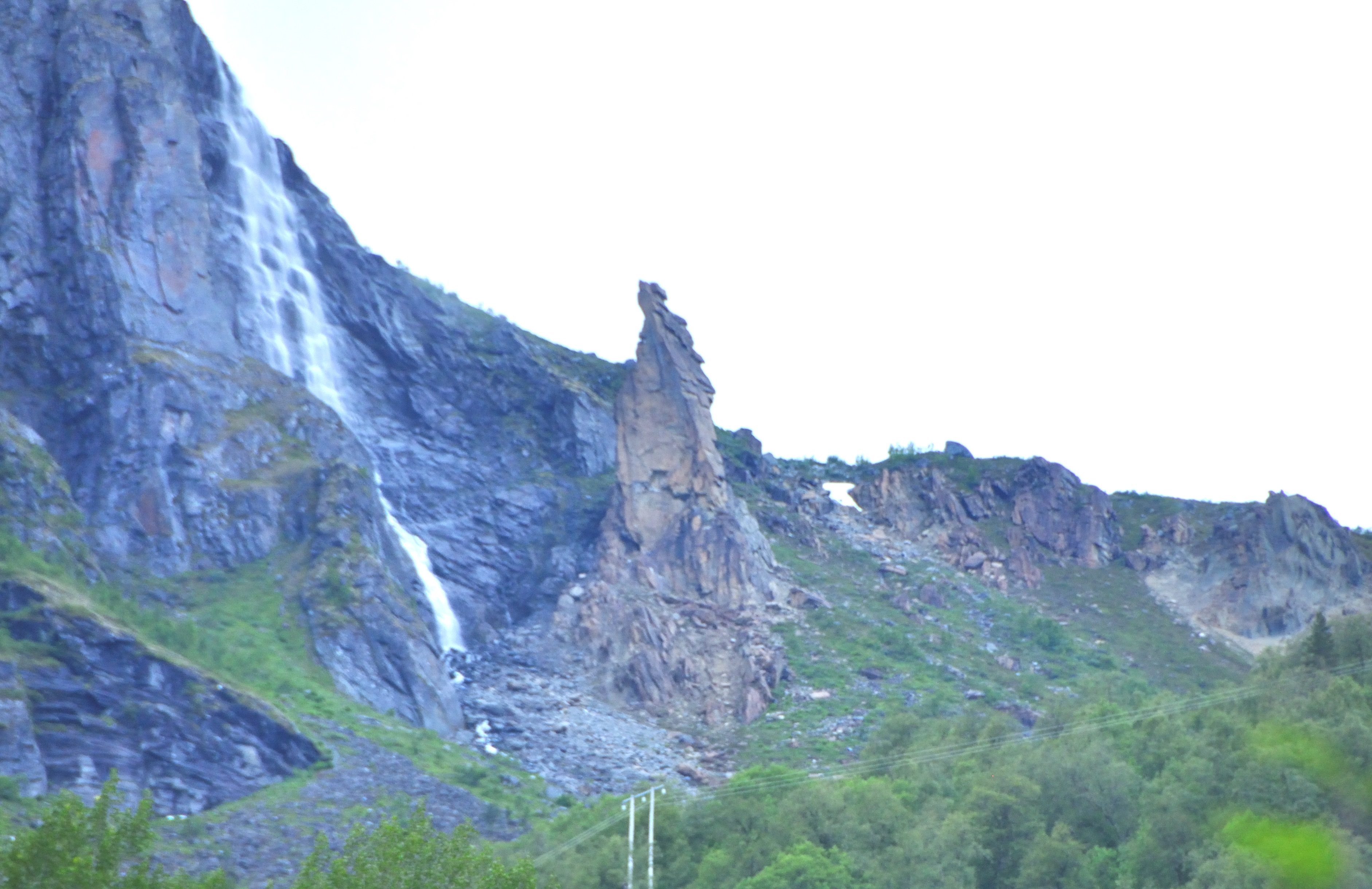 Kallskaret nature reserve in Tafjord seen from the road through the valley. "Kallen" is piece of olivine rock colored reddish from rust.